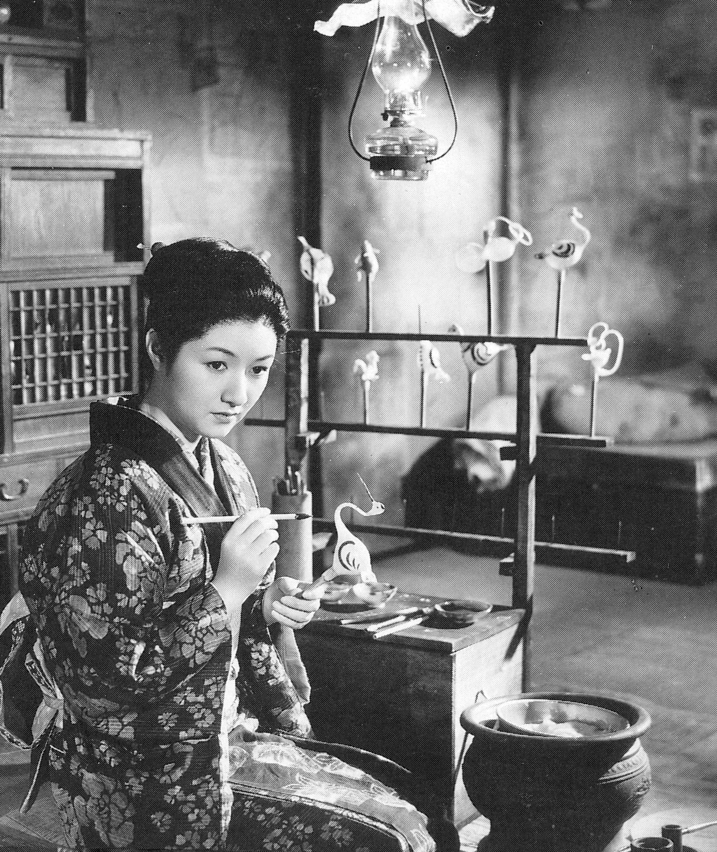 Hideko Takamine in Gan (雁) directed by Shirō Toyoda - 1953